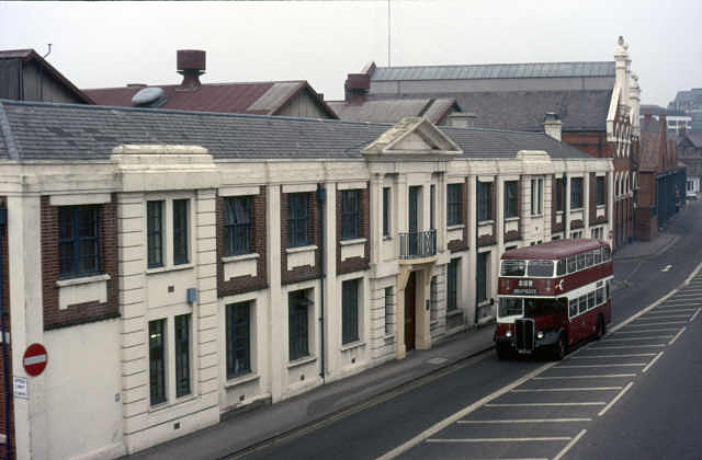 This area is now occupied by the Oracle centre, the development of which forced the removal of Reading Transport to its current site at Great Knollys Street. In the foreground are the offices built in the 1930s, with the old tramway power station immediately beyond with the high pitched roof. I took advantage of a temporary closure of the elevated Inner Distribution Road to get this picture.